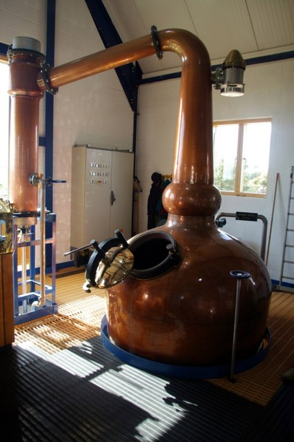 Spirit still at St George's Distillery The second stage of distillation takes place in this slender-necked copper still, capacity 1800 litres. The refined spirit must then be matured in oak casks, previously used for bourbon, for a minimum of three years (sometimes much longer) before it can be bottled and sold as whisky. During this time complex reactions take place and the product slowly acquires its rich flavour and colour.